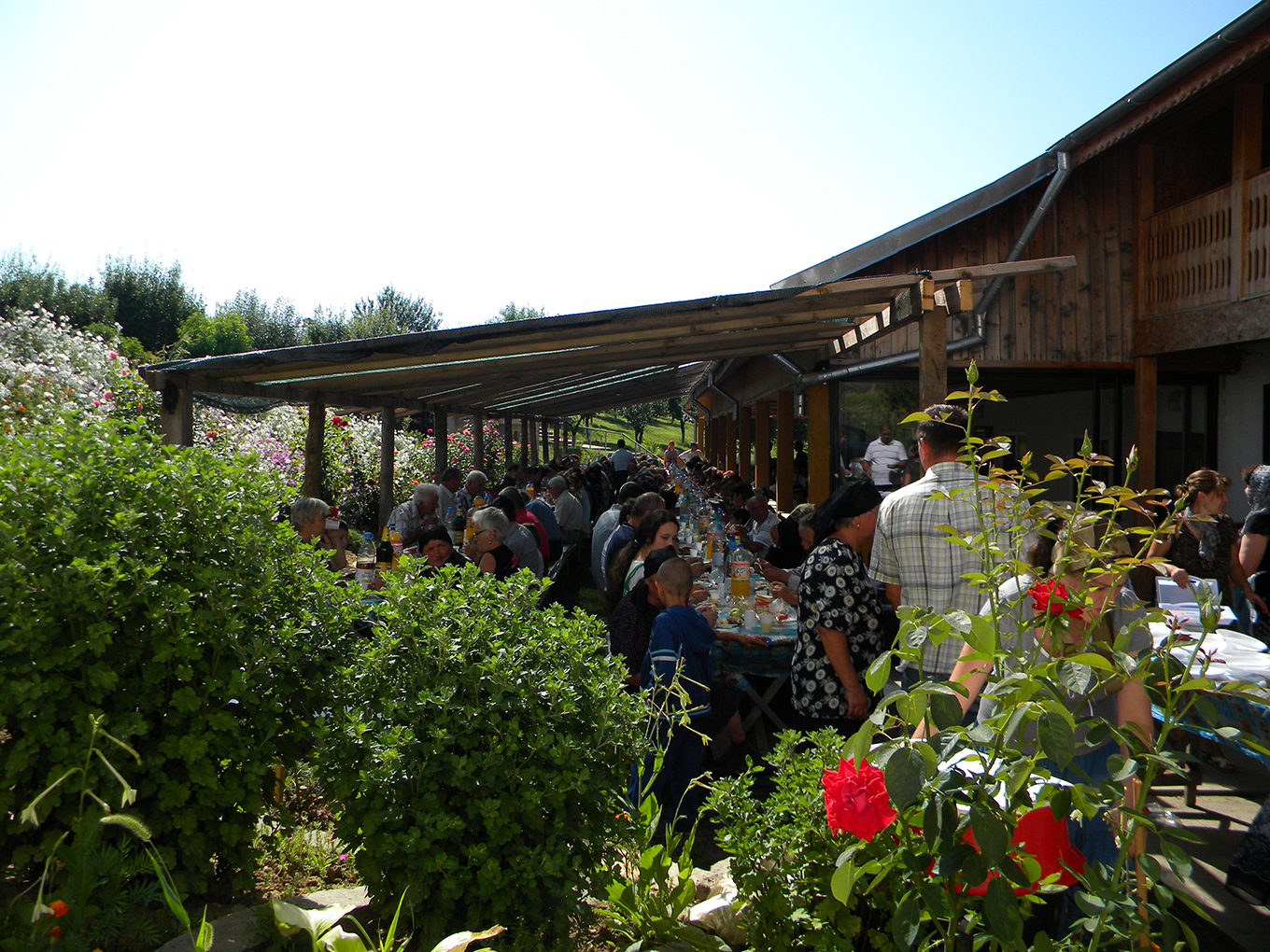 Hramul Schitului Sfantul Ilie